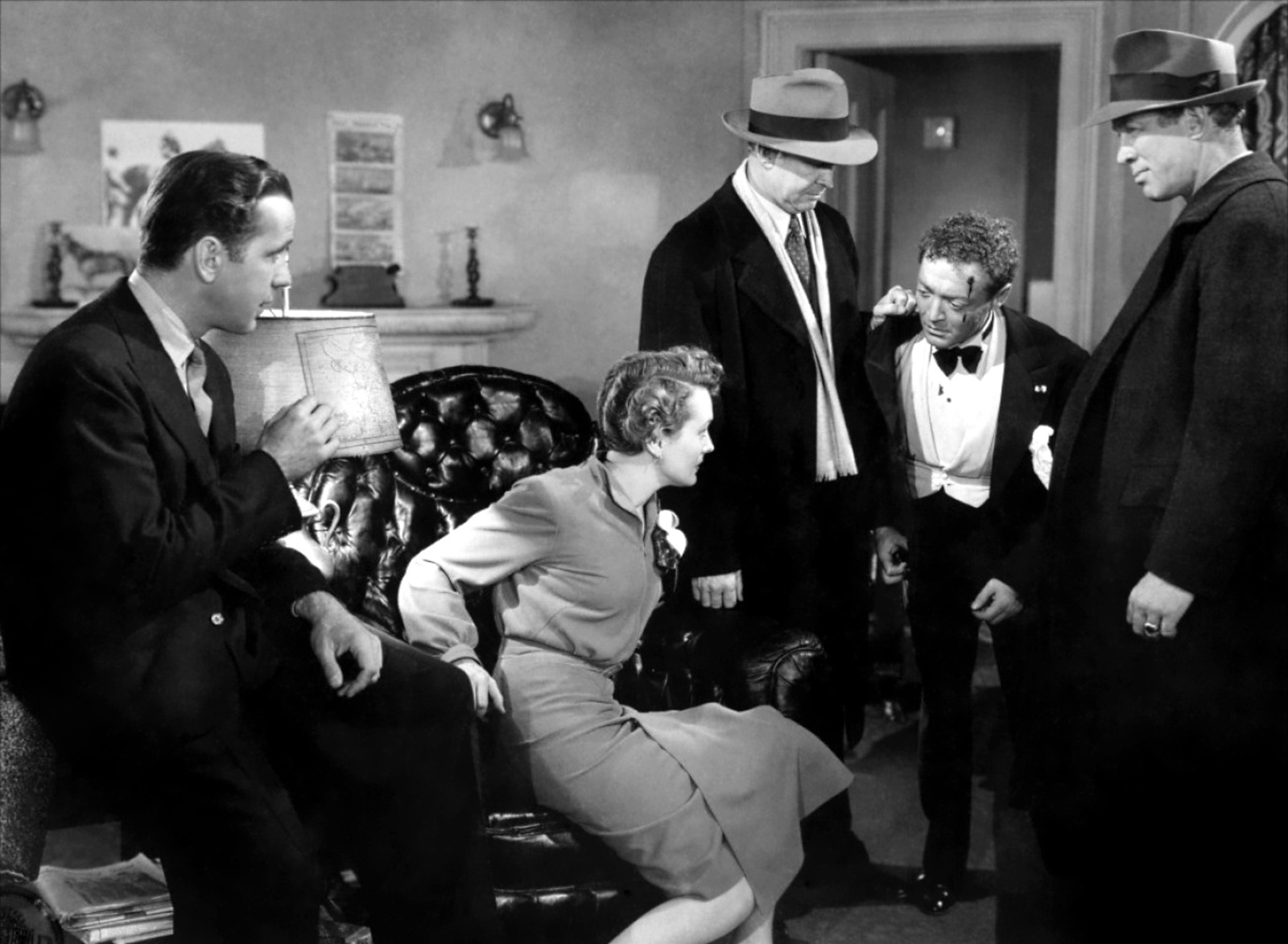 Promotional still from the 1941 film The Maltese Falcon, published on page 12 of National Board of Review Magazine. L-R: Humphrey Bogart, Mary Astor, Barton MacLane, Peter Lorre, Ward Bond